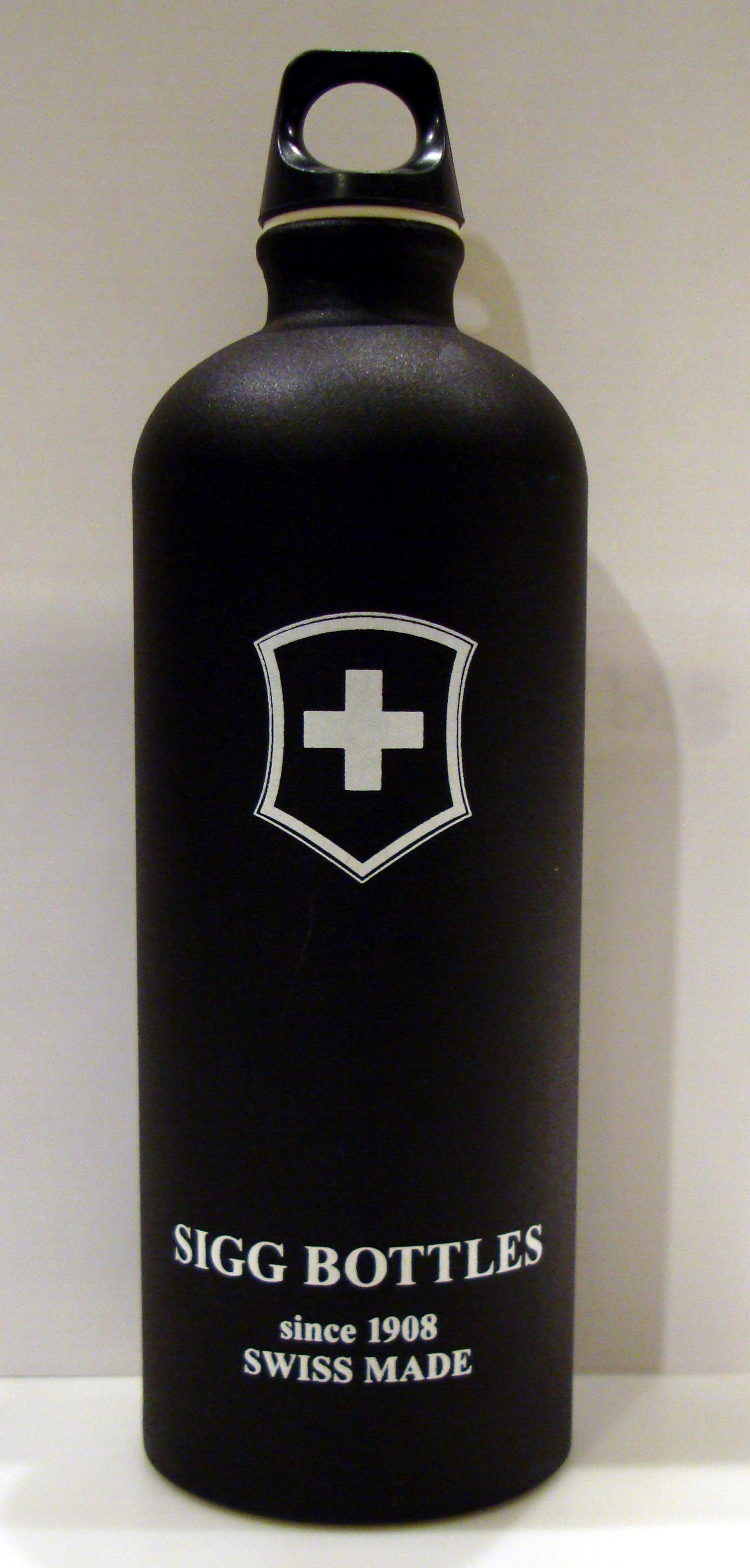 Image of a Sigg Bottle